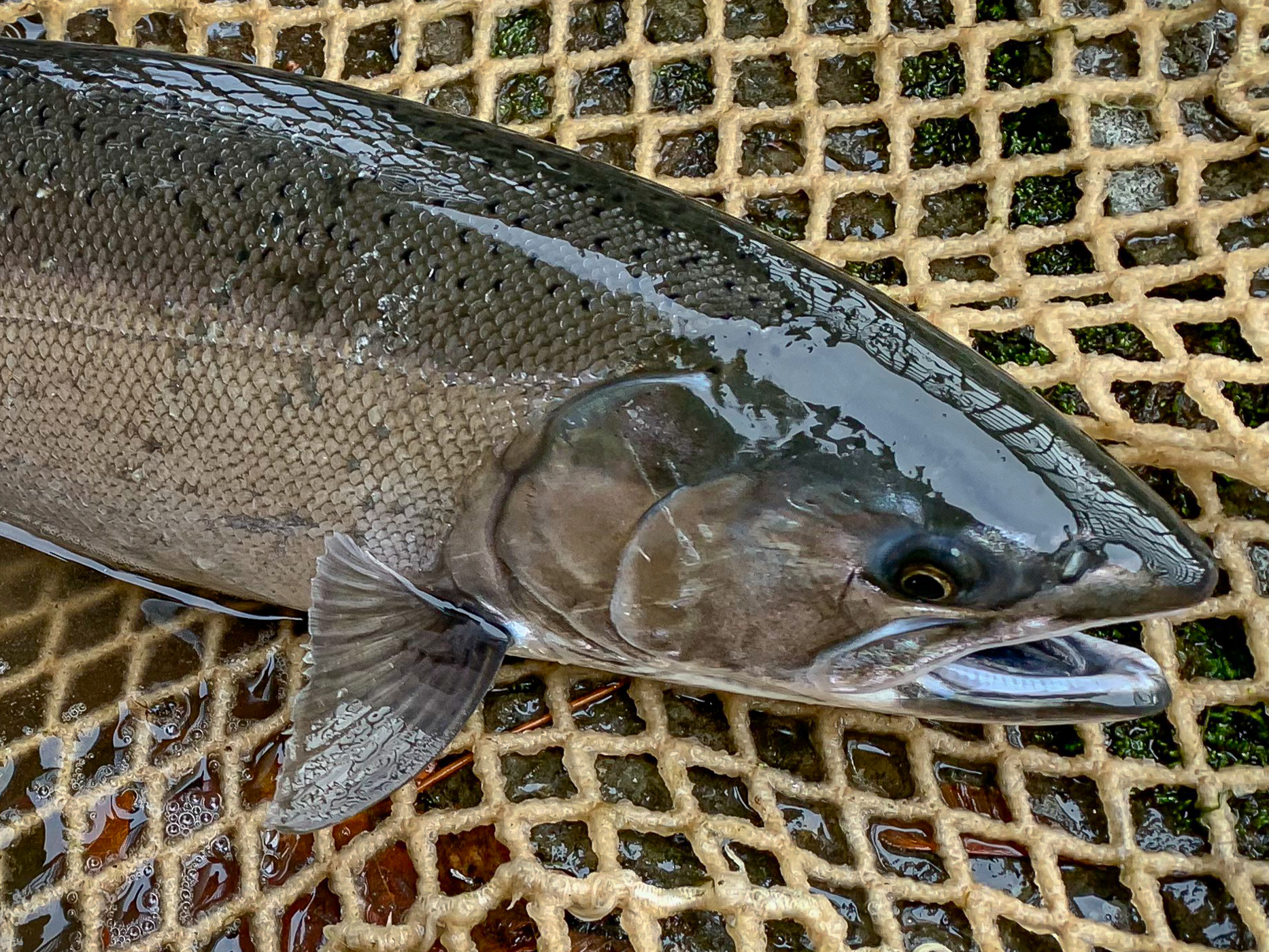 Coho or silver salmon (Oncorhynchus kisutchat) at Smith River Falls Recreation Site, Oct. 22, 2019, by Greg Shine, BLM. Oregon’s Smith River forms in the Coast Range and flows about 50 miles west, emptying into the Pacific Ocean just north of Reedsport, Oregon. This site offers 10 campsites along the Smith River, just above the falls. This peaceful, old-growth forest setting provides an ideal place to picnic, wade, fish, and watch for Bald Eagles. Find this location at GPS coordinates N43.79071 Latitude and W123.81403 Longitude, 27 miles northeast of Reedsport, Oregon. Know Before You Go: Open Season Memorial Day to September 30. 10 Campsites with picnic tables and fire rings; first come, first serve. Universal Access Restrooms available. Boat Launch available. No Drinking Water available. No Fees. More information: Coos Bay District Office 1300 Airport Lane North Bend, OR 97459 Phone: 541-756-0100 Fax: 541-751-4303